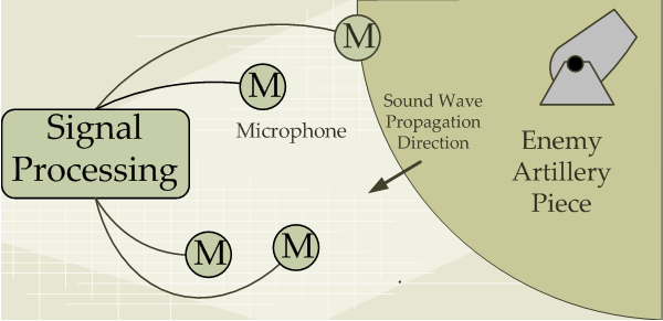 Simple block figure illustrating sound location. I created this document and I release all rights to it.